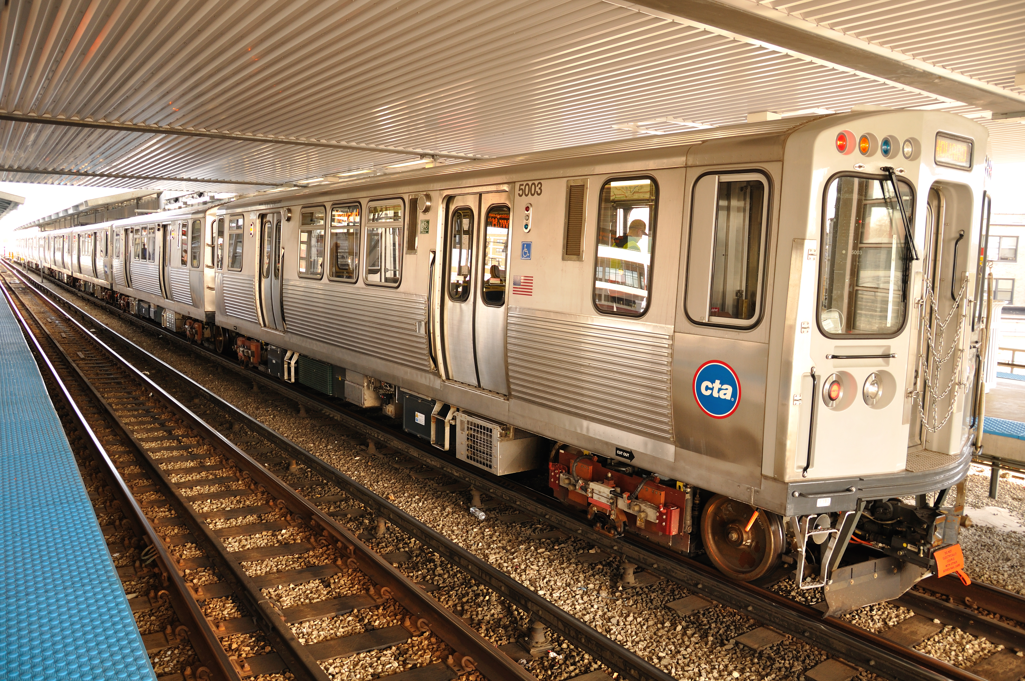 After dead-heading from 95th street to Howard, the consist waits for the Howard loop track to be clear for turn around.